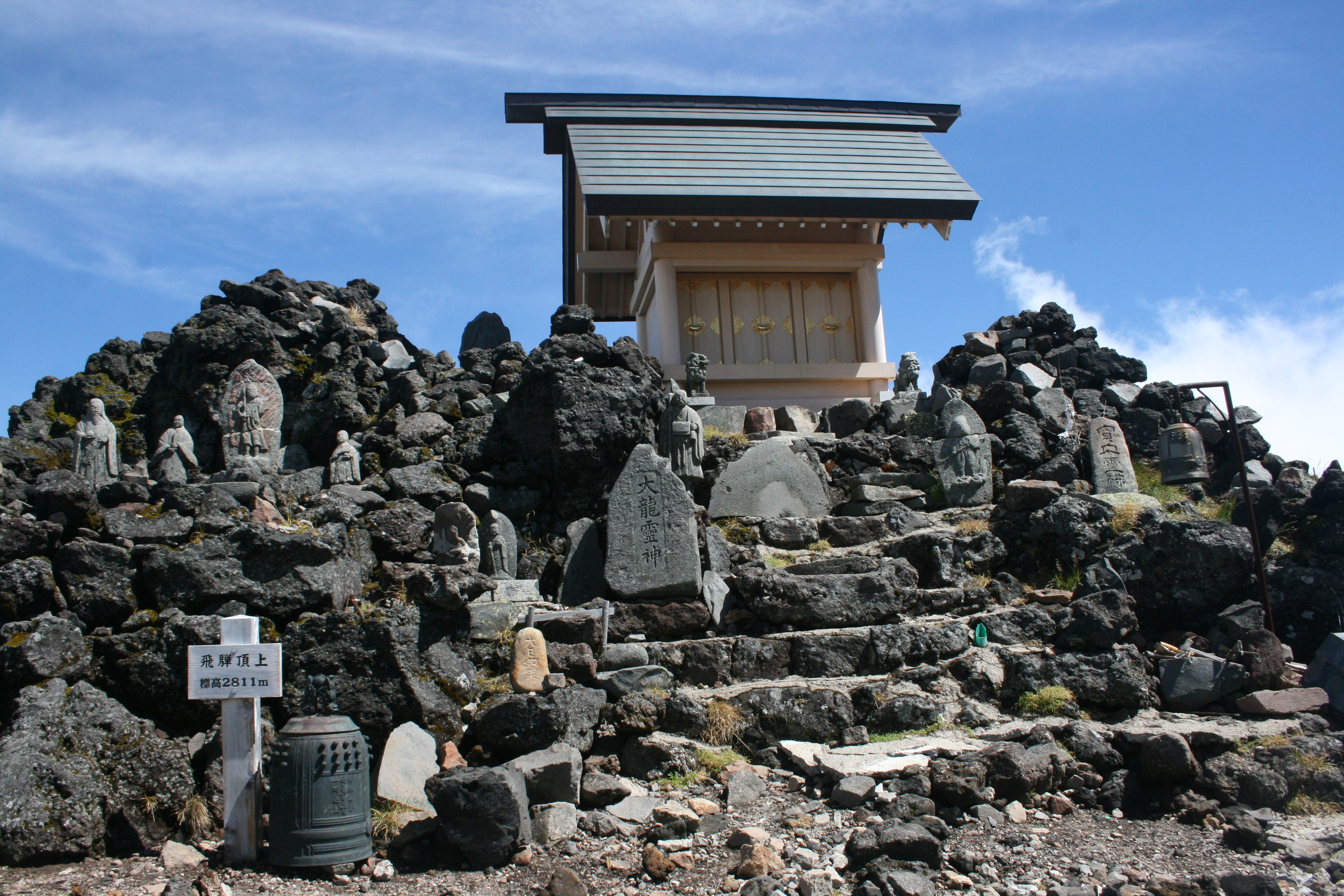 Hida peak of Mount Ontake